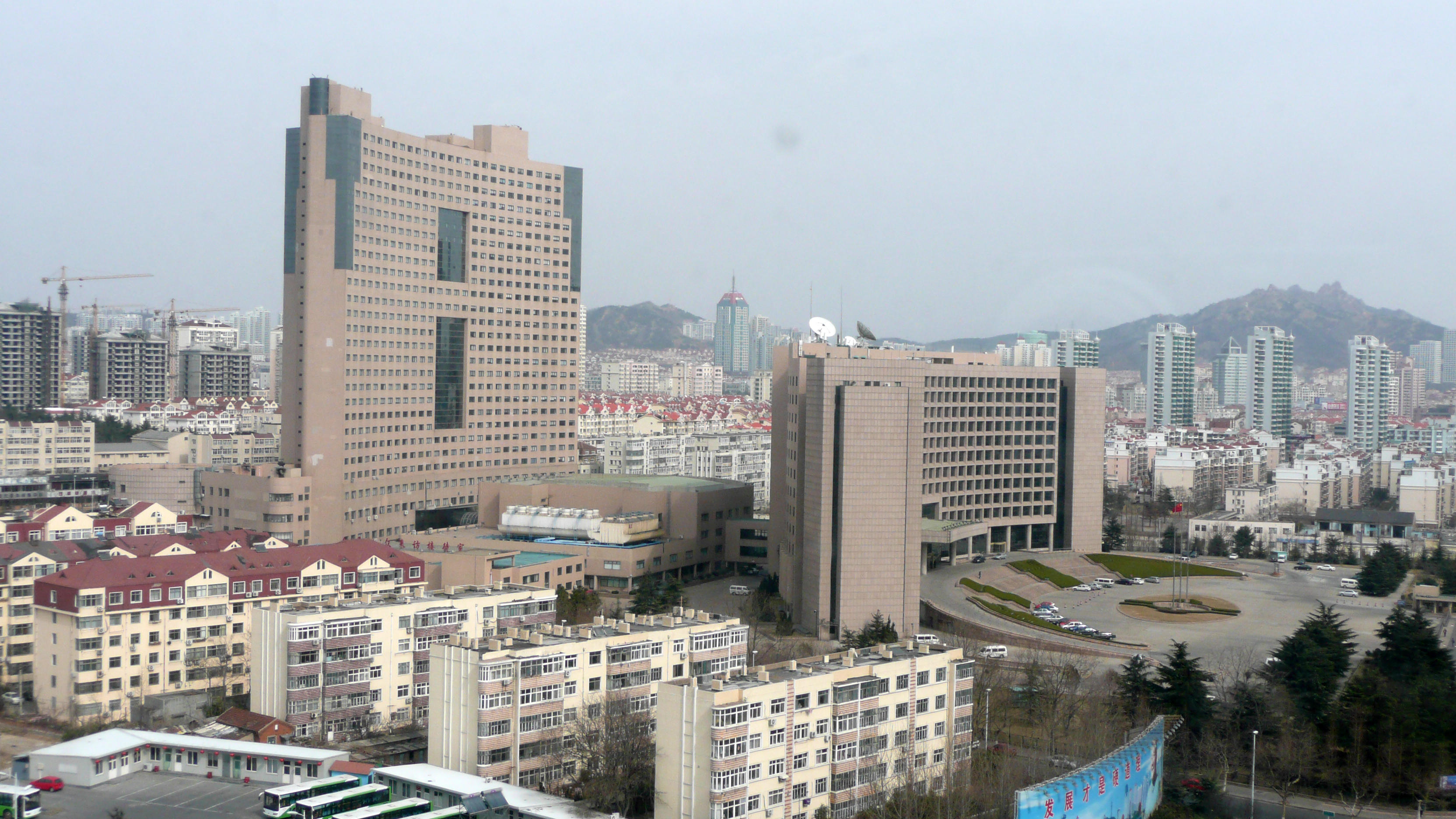 Biilding of the city government in the new centre of Qingdao